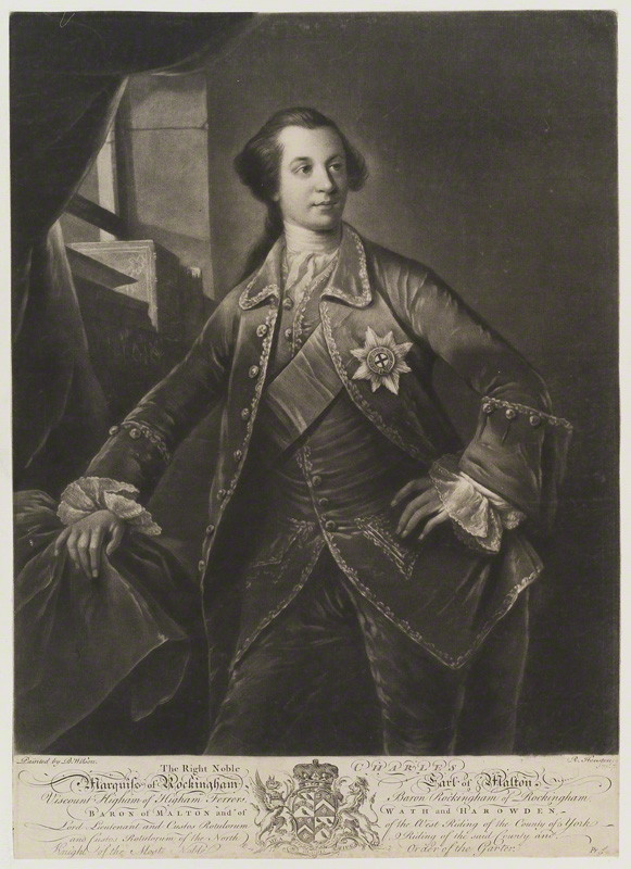 Charles Watson-Wentworth, 2nd Marquess of Rockingham (1730-1782)